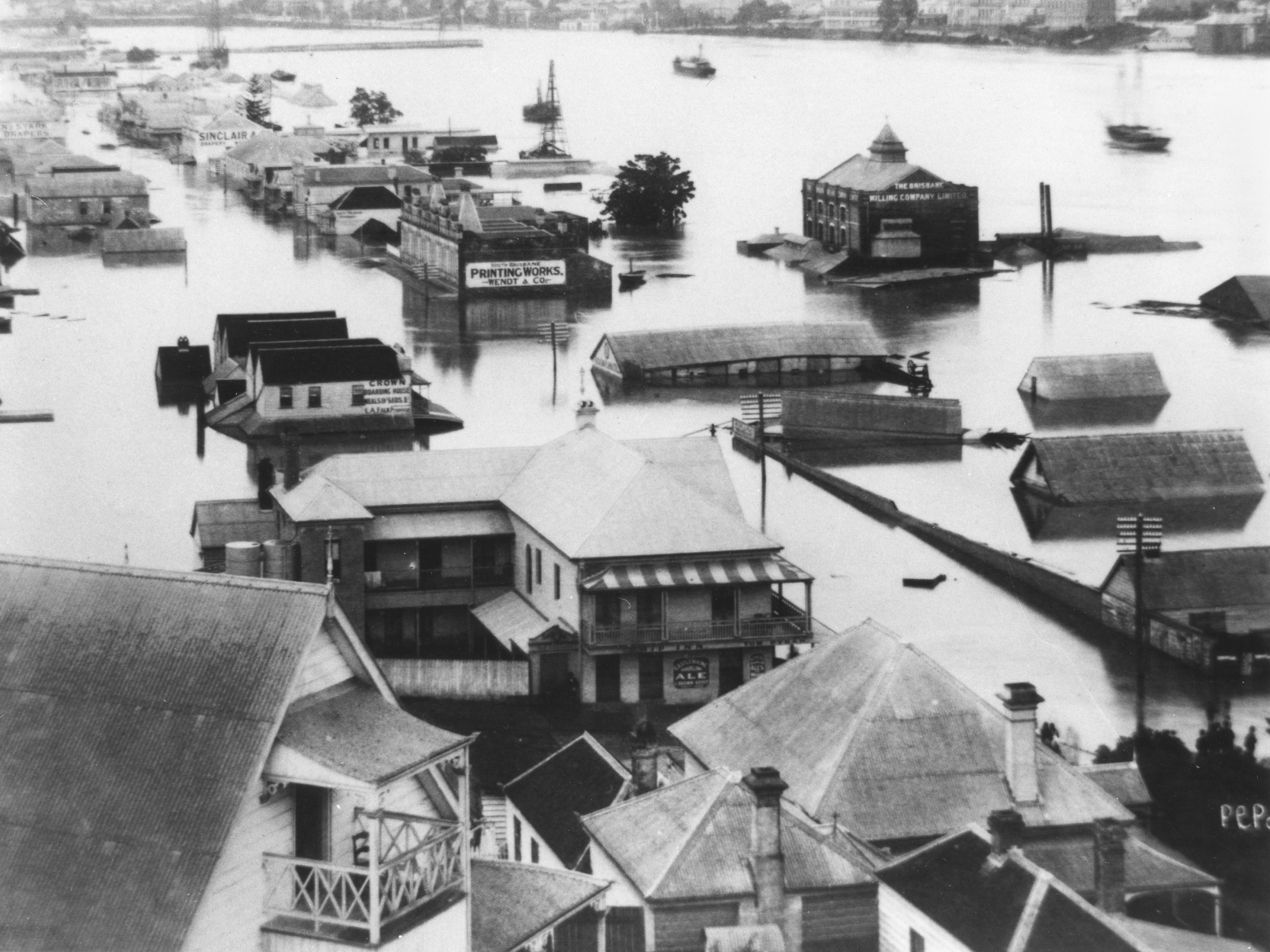 Flooding of the Brisbane River in 1893. Ship Inn hotel in the centre front of the photograph.